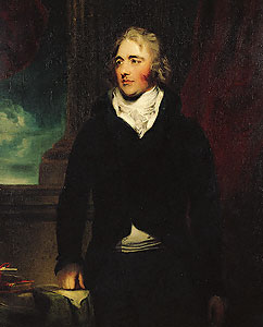 Robert Hobart, 4th Earl of Buckinghamshire (1760-1816)